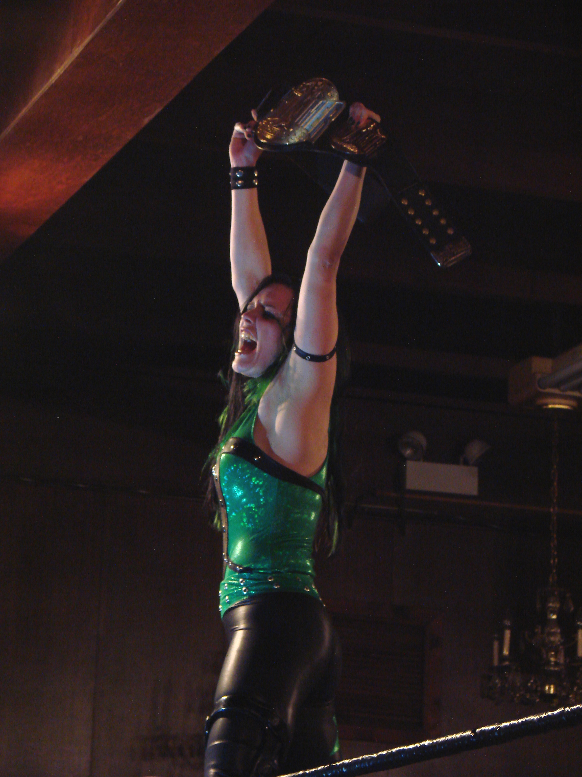 MsChif at a SHIMMER DVD Taping. Eagle's Club; Berwyn, IL. Taken by myself. Rotated and brightened.